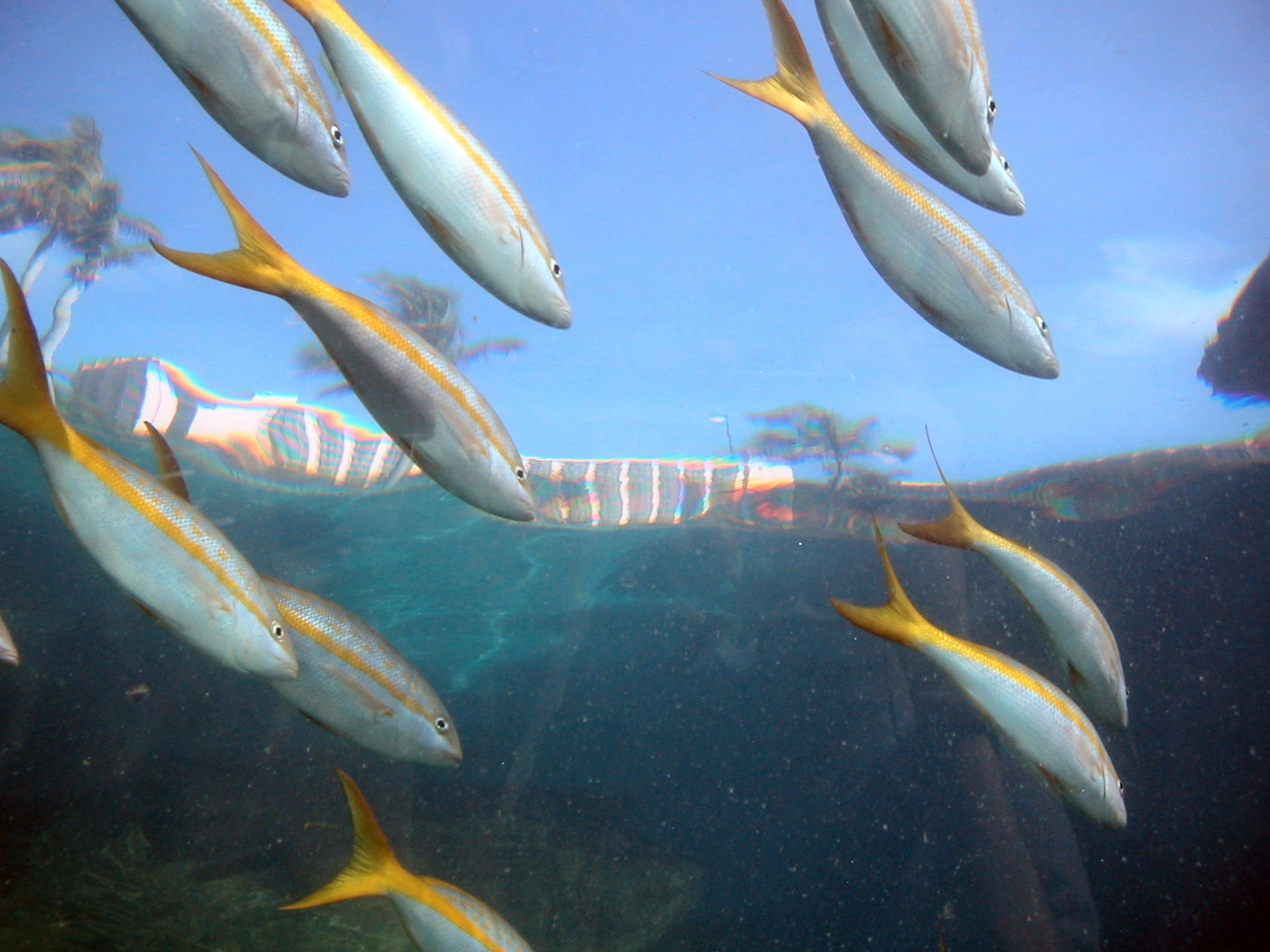 Yellowtail snapper (Ocyurus chrysurus) seen from underwater tunnel at Atlantis, Paradise Island, Nassau, Bahamas.